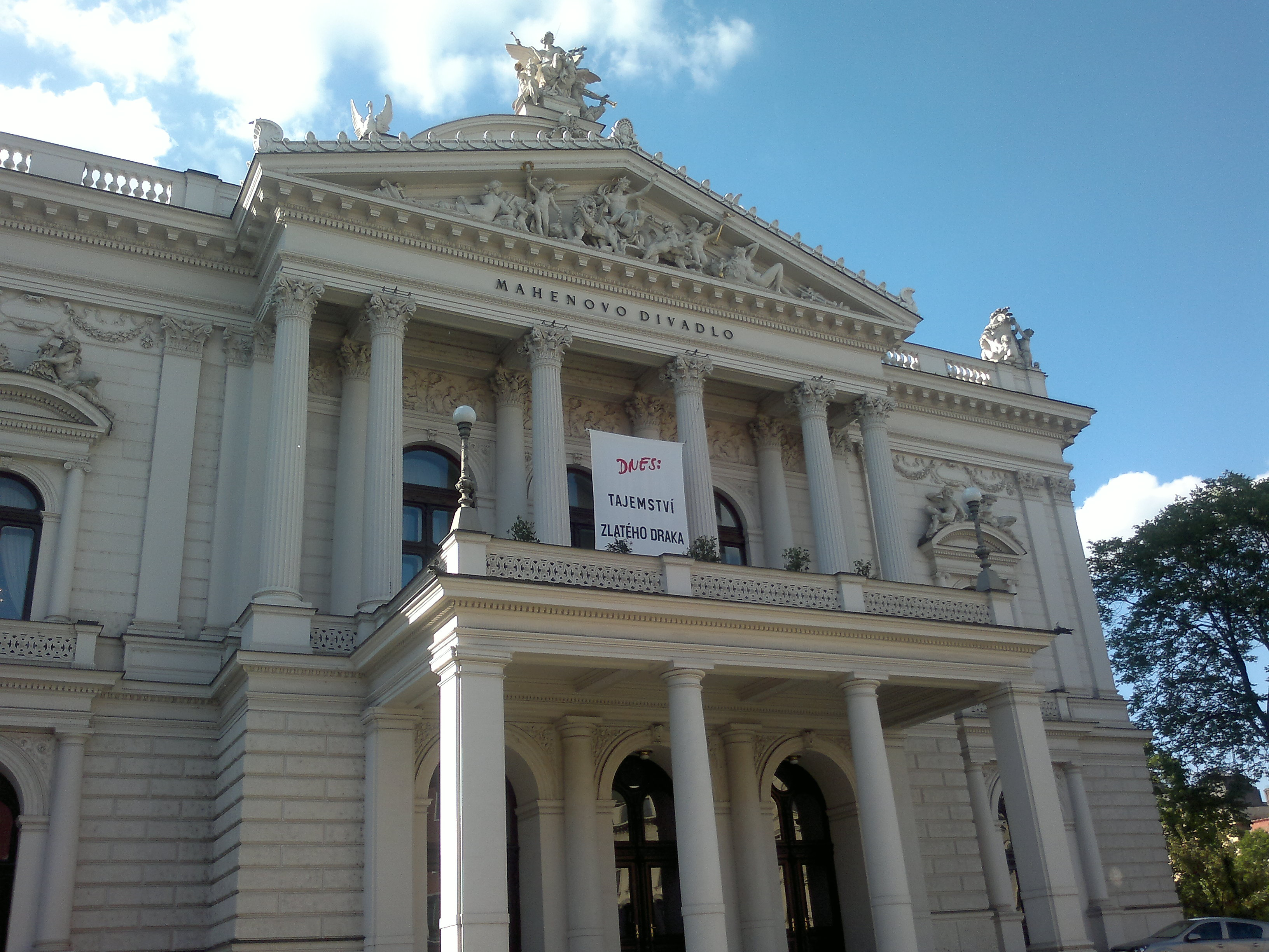 The Mahen Theatre in Brno